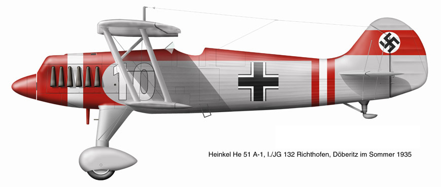 Heinkel He 51 A-1 of JG 132